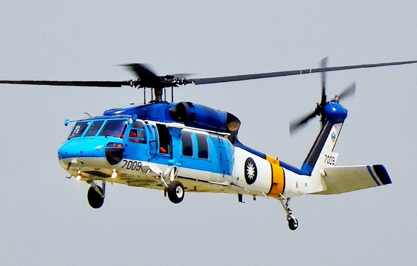 ROCAF S-70C Flying above Songshan Air Force Base